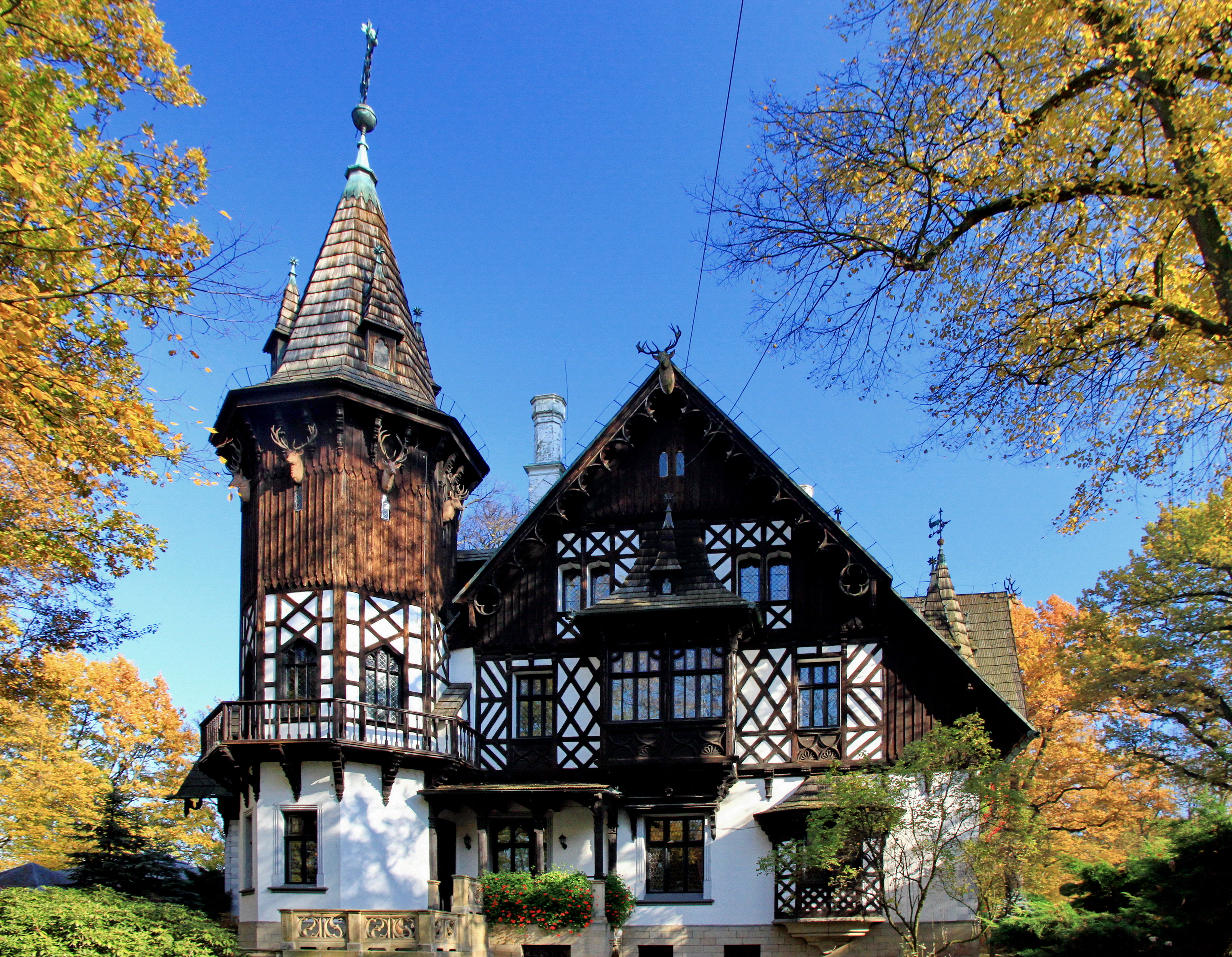 Kobiór, hunting castle, build in 1861, 1868